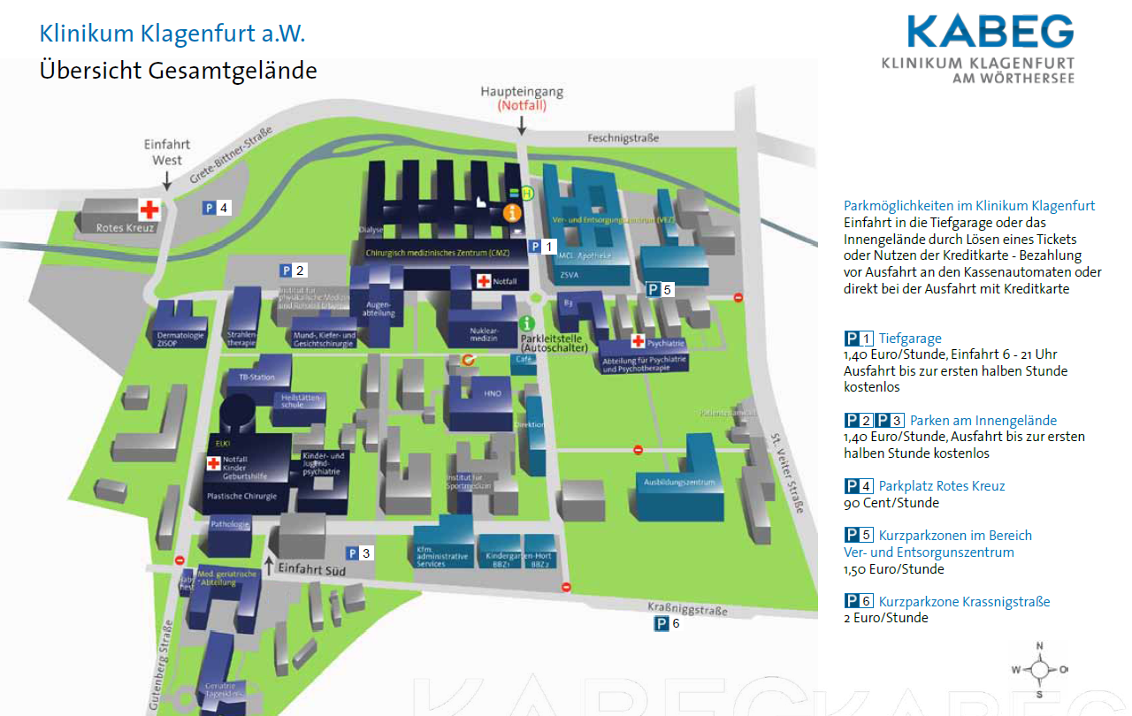 The map form the "Klinikum Klagenfurt am Wörthersee" (hospital)